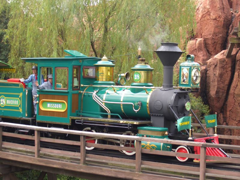 Tokyo Disney Land Western River Railroad "Missouri"